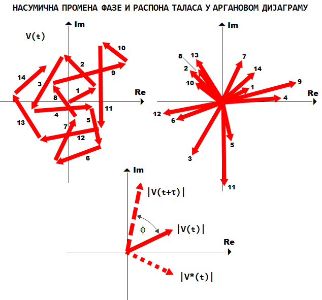 НАСУМИЧНА ПРОМЕНА ТАЛАСА